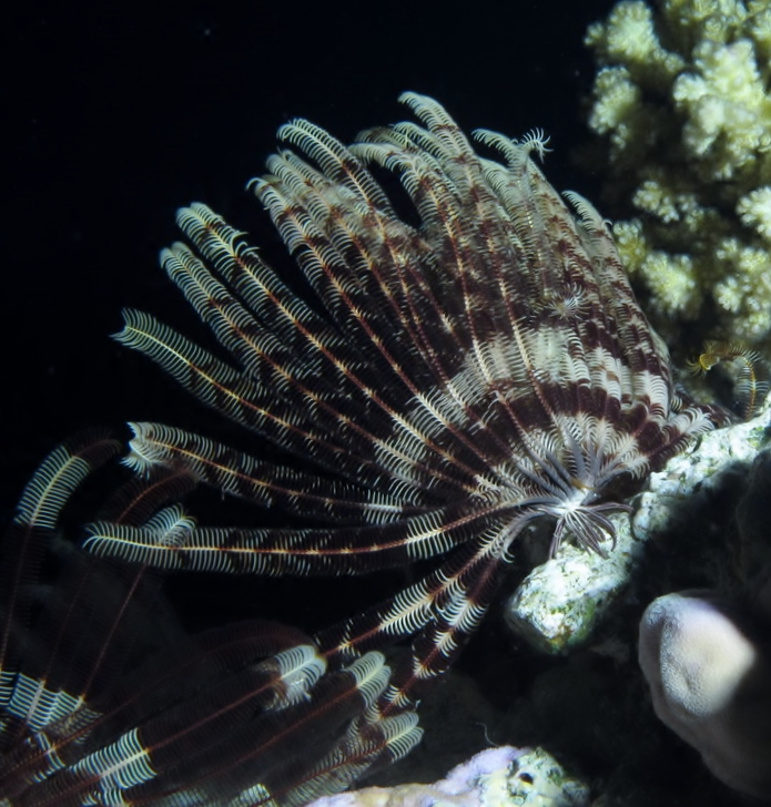 Klunzinger's Feather Star, Lamprometra klunzingeri at night at Abu Dabab Reefs, Red Sea, Egypt